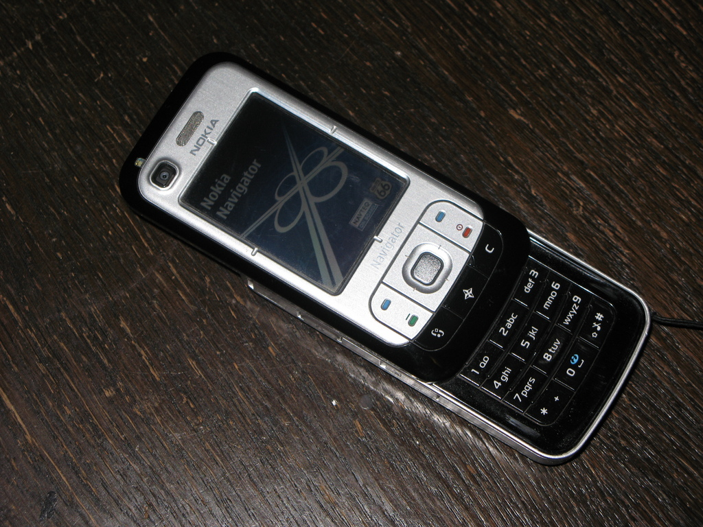 Nokia 6110 Navigator mit ROUTE 66 Start Bildschirm